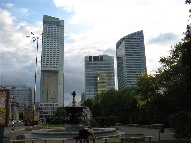 Warsaw Downtown